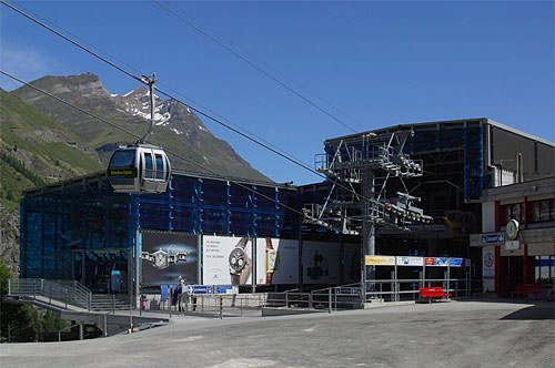 "Matterhorn Express", station Furi, between Zermatt and Schwarzsee